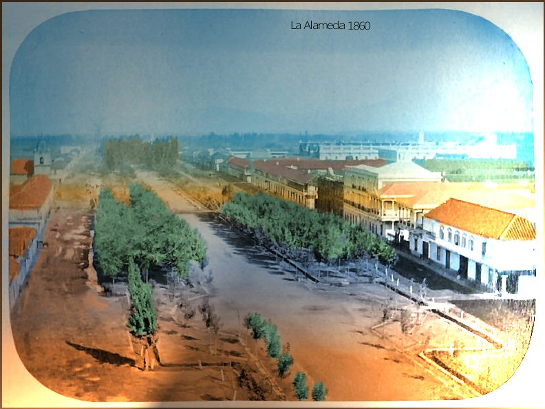 La Alameda, Santiago in 1860